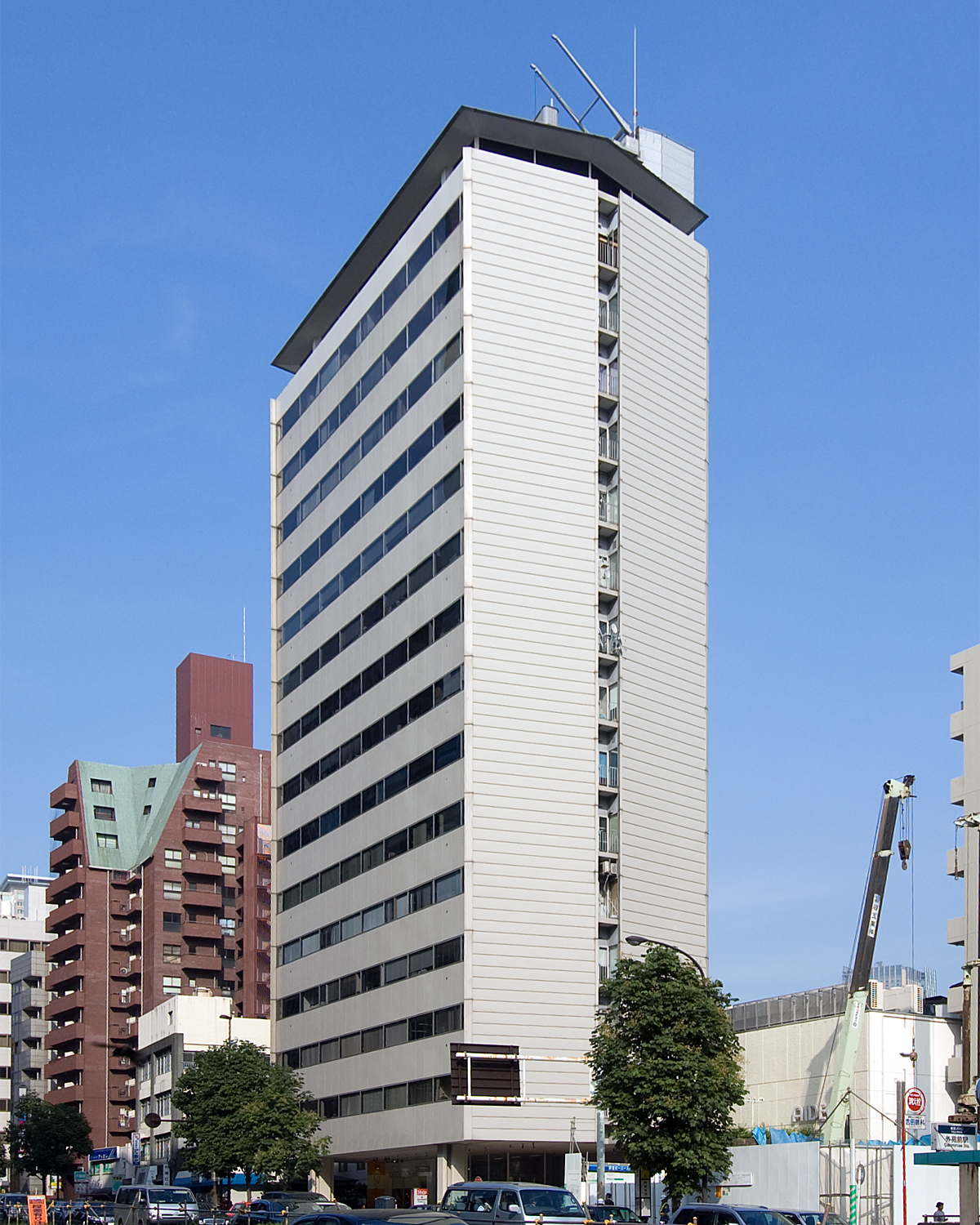 Aoyama Tower Building and Hall, Minato-ku Tokyo Japan, Design by Junzo Yoshimura in 1969.